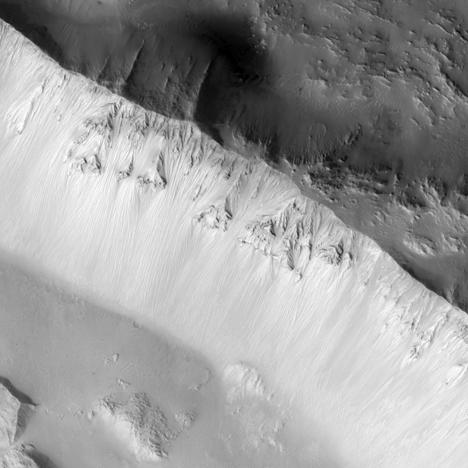 Pettit Crater Rim, as seen by hirise. Location is 10.9 degrees north latitude and 185.4 degrees east longitude. Image was taken by the Mars Reconnaissance Orbiter's HiRISE. The HiRISE camera was built by Ball Aerospace and Technology orporation and is operated by the University of Arizona. Image courtesy NASA/JPL/University of Arizona.